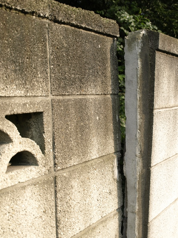 A concrete block wall tearing apart from the lack of horizontal bond beams. In Shiki, Saitama, Japan.